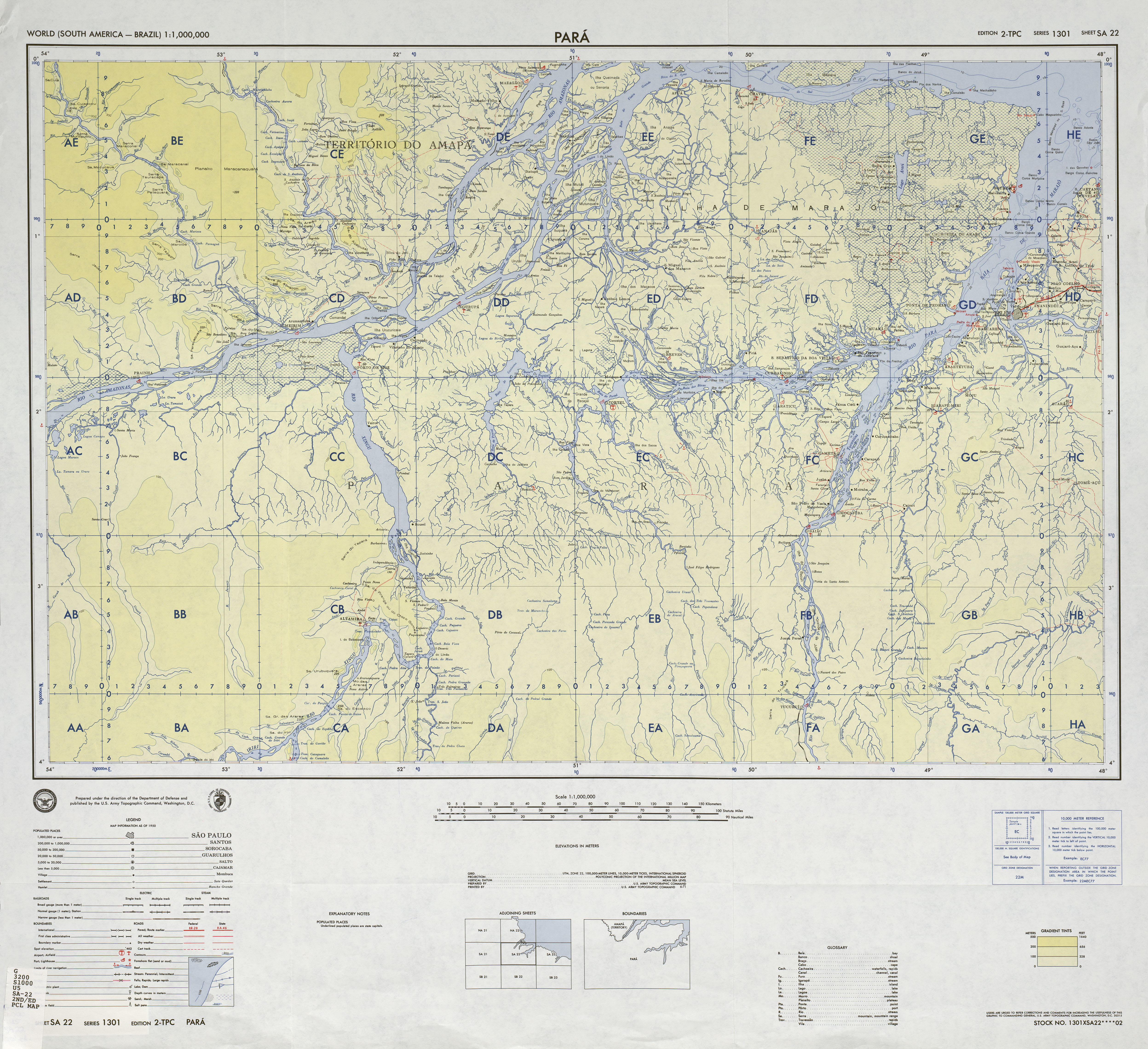 Sheet SA-22 of International Map of the World 1:1,000,000, with Marajo Island, Brazil